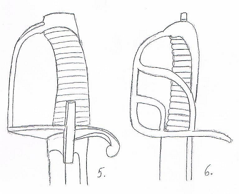 Drawing of a typical sabre hilt, after an illustration in Gerhard Seifert, Fachwörter der Blankwaffenkunde: dt. Abc der europäischen blanken Trutzwaffen ; (Hieb-, Stoß-, Schlag- und Handwurfwaffen), Verlag Seifert, 1981